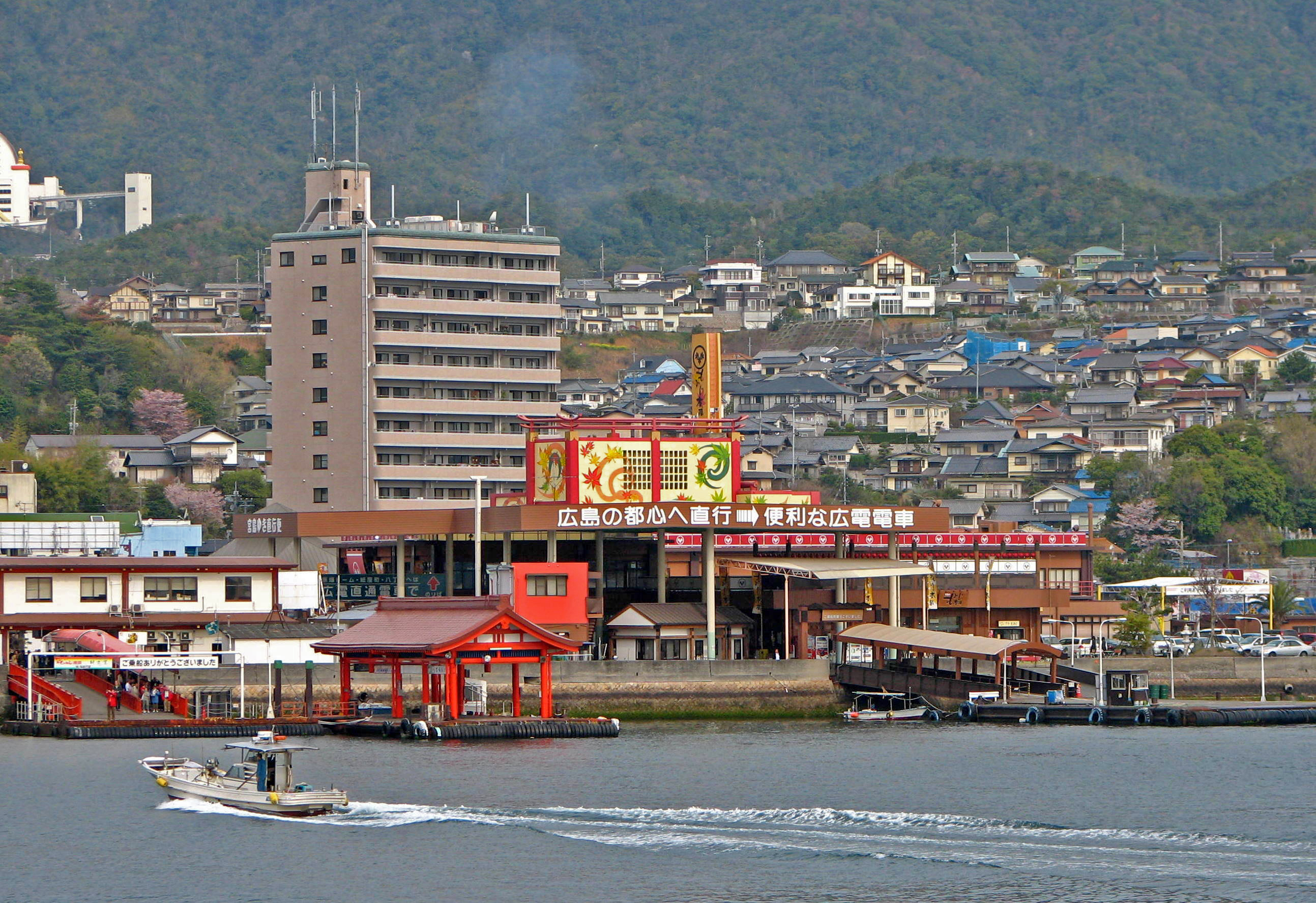 Miyajimaguchi, Hiroshima Prefecture, Japan